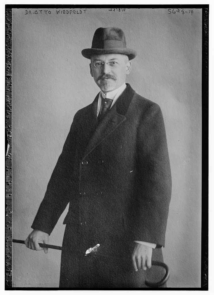 Title: Dr. Otto Wiedfeldt Creator(s): Bain News Service, publisher Date Created/Published: [no date recorded on caption card] Medium: 1 negative : glass ; 5 x 7 in. or smaller. Reproduction Number: LC-DIG-ggbain-34052 (digital file from original negative) Rights Advisory: No known restrictions on publication. Call Number: LC-B2- 5698-14 [P&P] Repository: Library of Congress Prints and Photographs Division Washington, D.C. 20540 USA Notes: Title from unverified data provided by the Bain News Service on the negatives or caption cards. Forms part of: George Grantham Bain Collection (Library of Congress). General information about the Bain Collection is available at